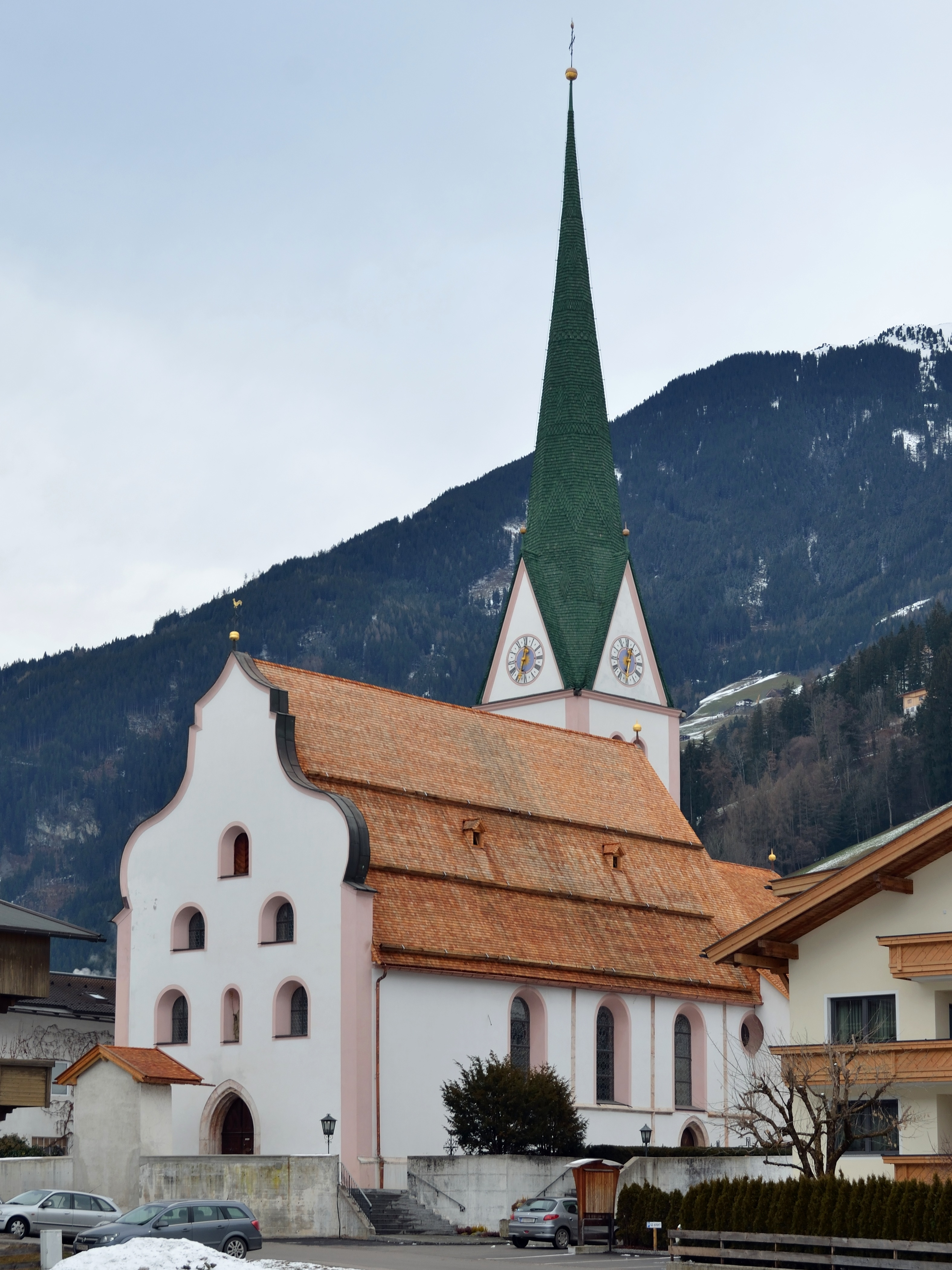 The parish church Saint Rupert (hl. Rupert) in Stumm im Zillertal, Tirol, is protected as a cultural heritage monument.